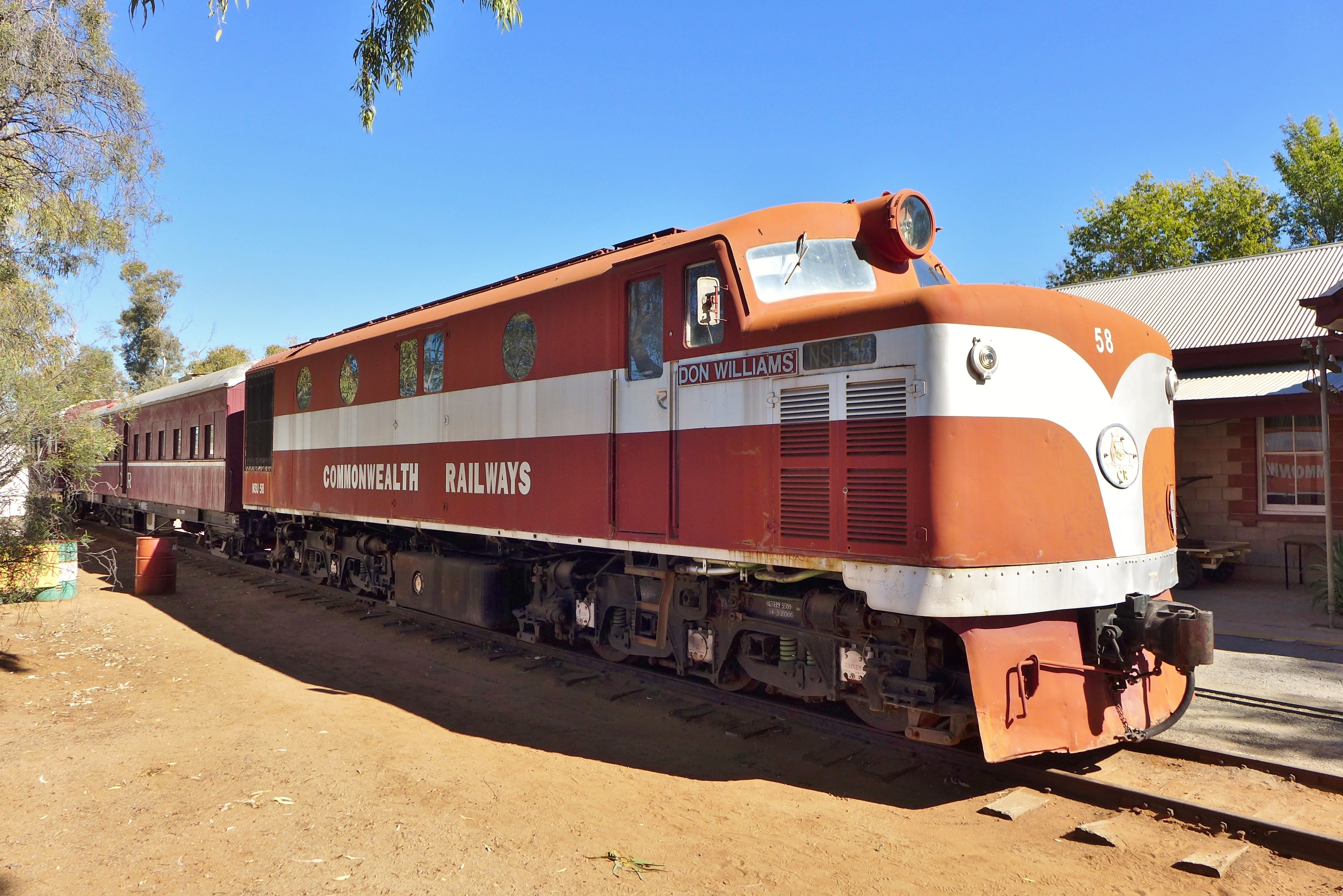 Preserved ex-Commonwealth Railways NSU class diesel-electric locomotive NSU58 Don Williams, on display with a train of ex-narrow gauge Ghan coaches, at the Old Ghan Heritage Railway and Museum, 10 km south of Alice Springs, NT, Australia.